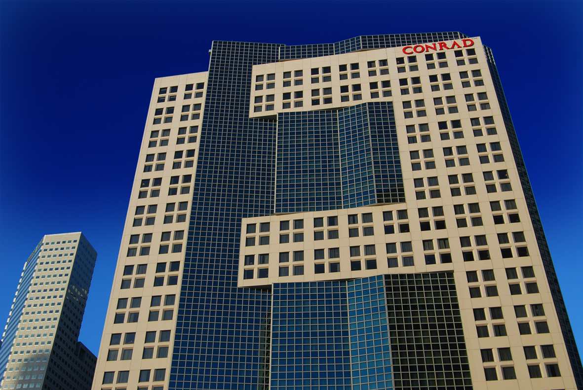 When you flip this horizontally it reads F1, reminding me of the first F1 race held recently around the vicinity of this hotel.